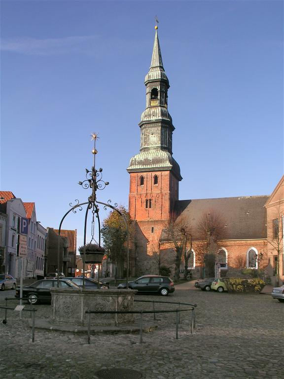 Tönning (Slesvic-Holstein, Germany), market-place , photo 2005